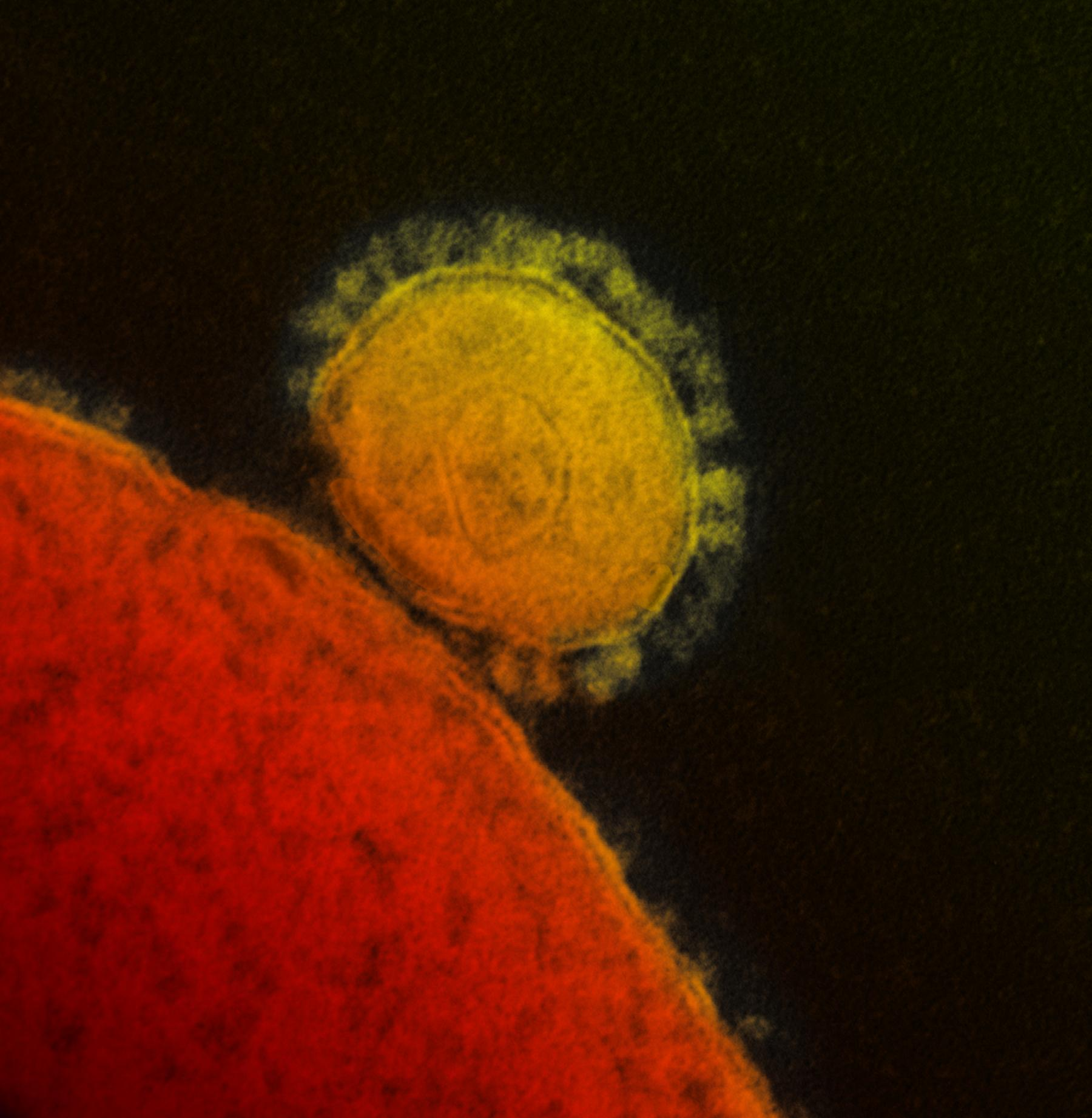 Transmission electron micrograph of Middle East respiratory syndrome (MERS) coronavirus.